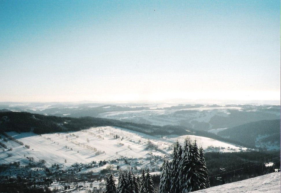 Rokytnice in Liberec Region, Czech Republik. A view from the Studenov pyramidal peak.